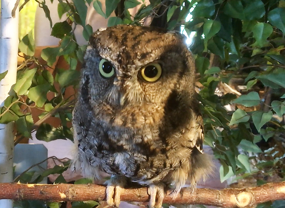 Megascops kennicottii / Otus kennicottii / Western Screech Owl